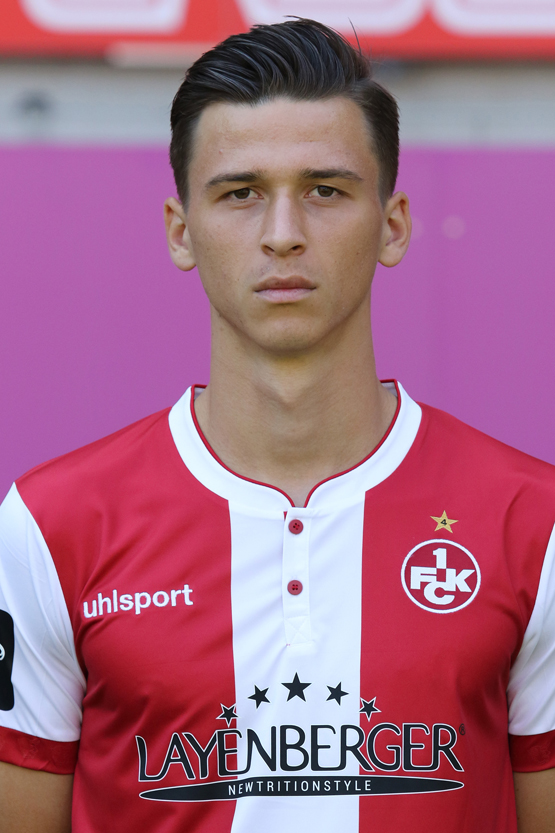 Theo Bergmann (Nr. 16)